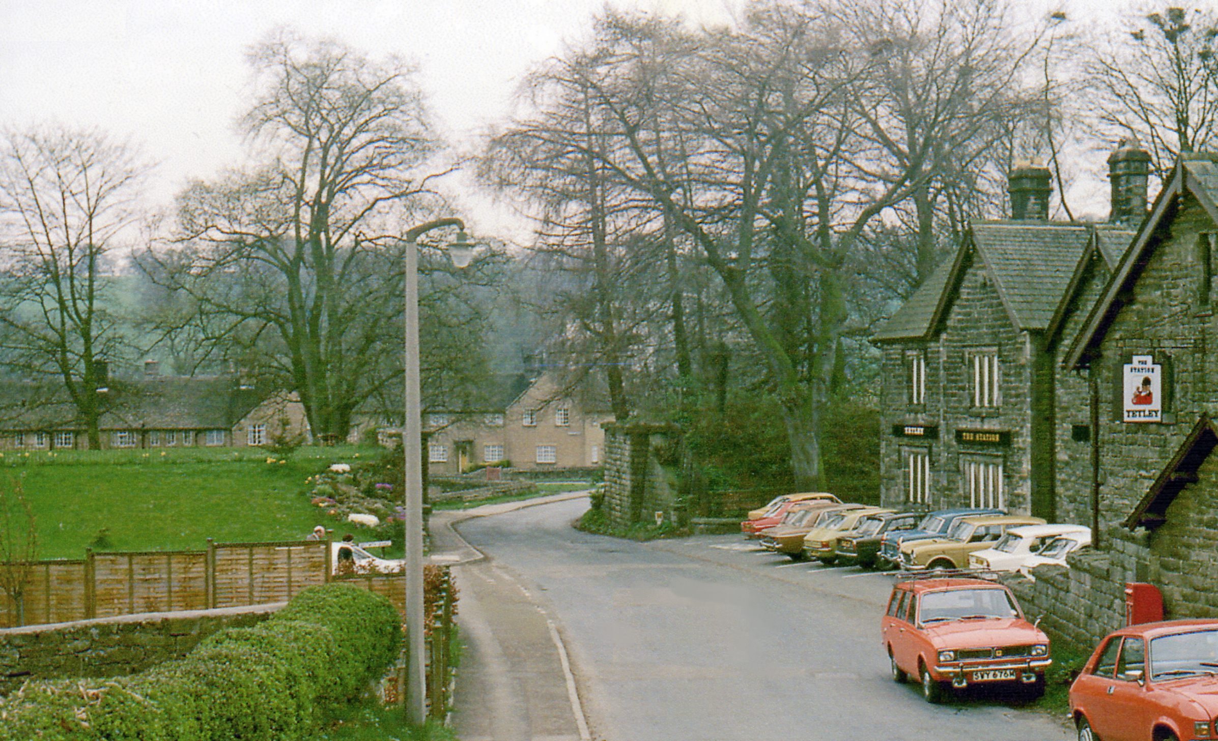 Site of Birstwith station, 1976. View SW, across course of railway: NER Nidd Valley branch, Harrogate (to left) - Pately Bridge (to right), closed to passengers 2/4/51, goods 31/10/64; the station was on the right.